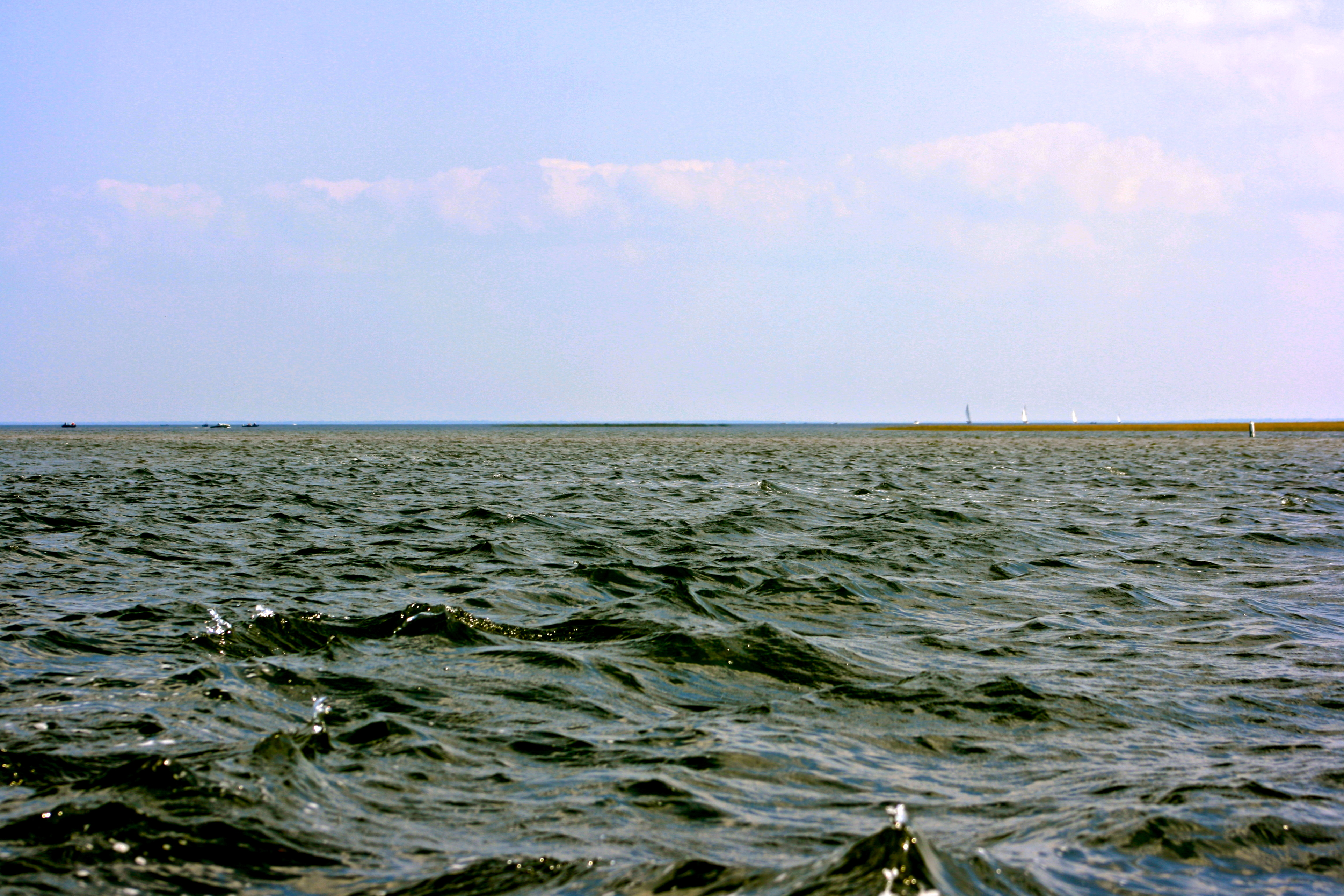 A view showing the vastness of Leech Lake. Taken from The Narrows facing east towards the large part of the lake. On the left are fishing boats at a walleye hotspot, and on the right are sailboats competing in a race